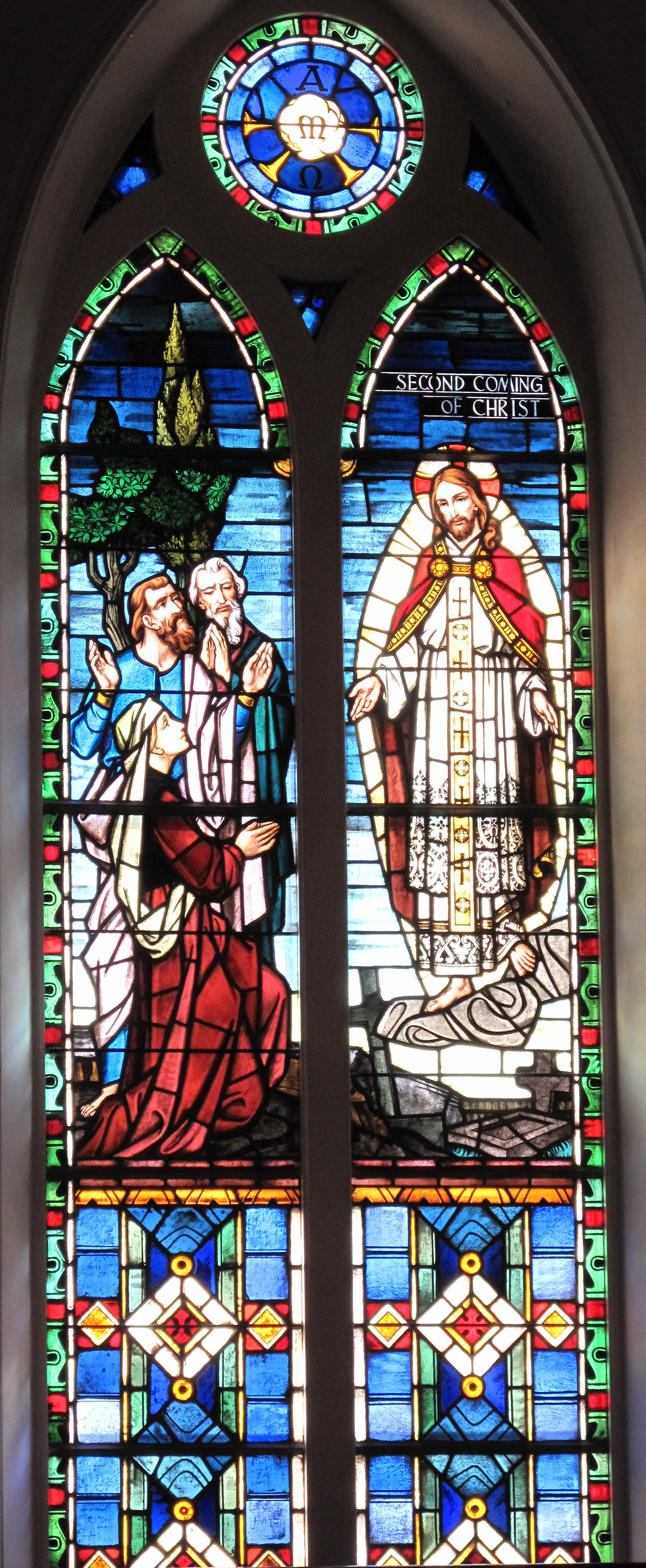 The Second Coming of Christ window at St. Matthew's Lutheran Church in Charleston, SC. Franz Mayer & Co. of Munich, Germany represented by the studios of George L. Payne of Patterson, New Jersey 1966.